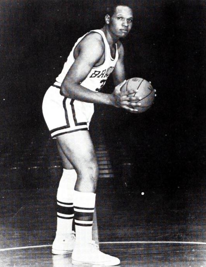 Bradley University basketball player Joe Allen from the 1967 “Anaga” yearbook.